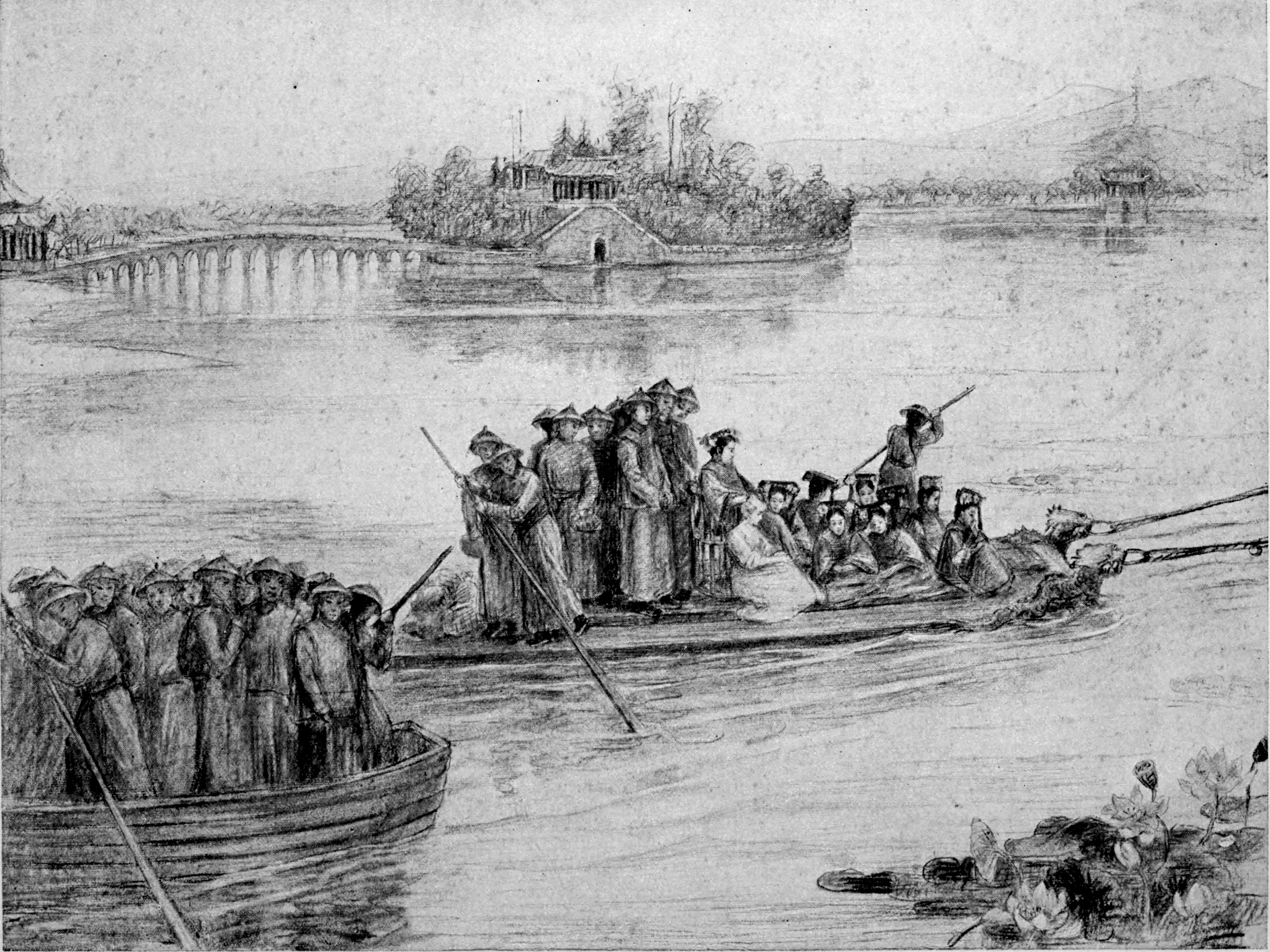 Empress Dowager Cixi and ladies of the court in the imperial barge on the lake of the Summer Palace.